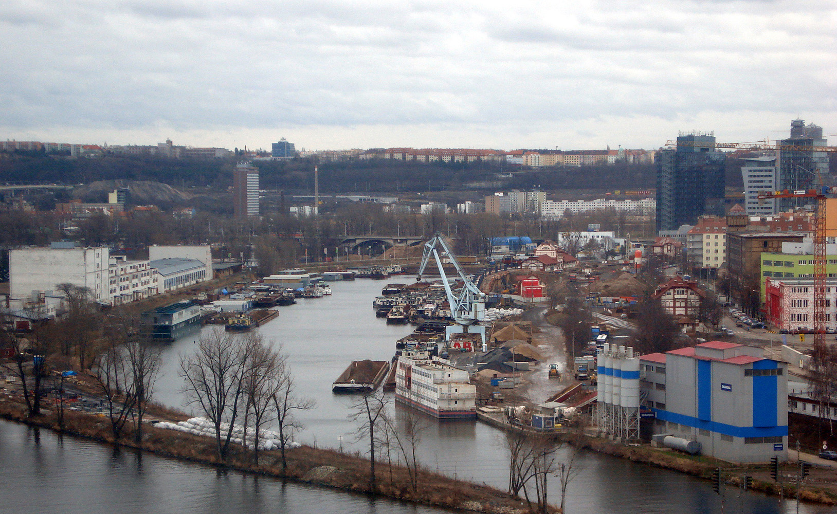 Holešovice Harbour (Prague, Czechia)